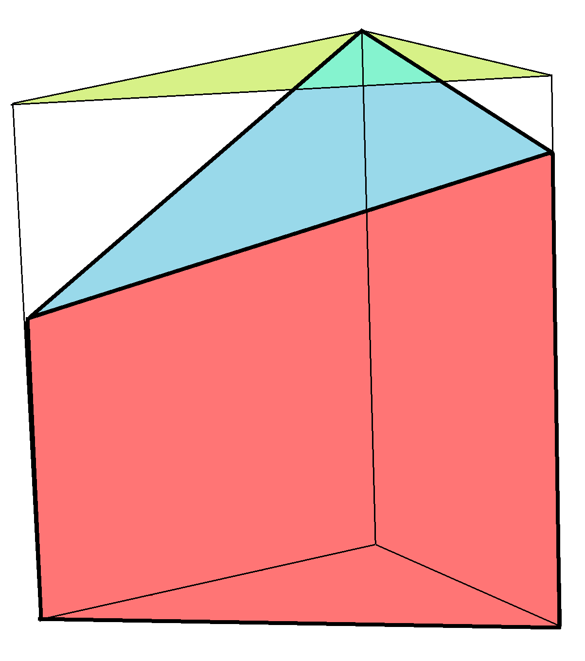 Truncated Triangular prism